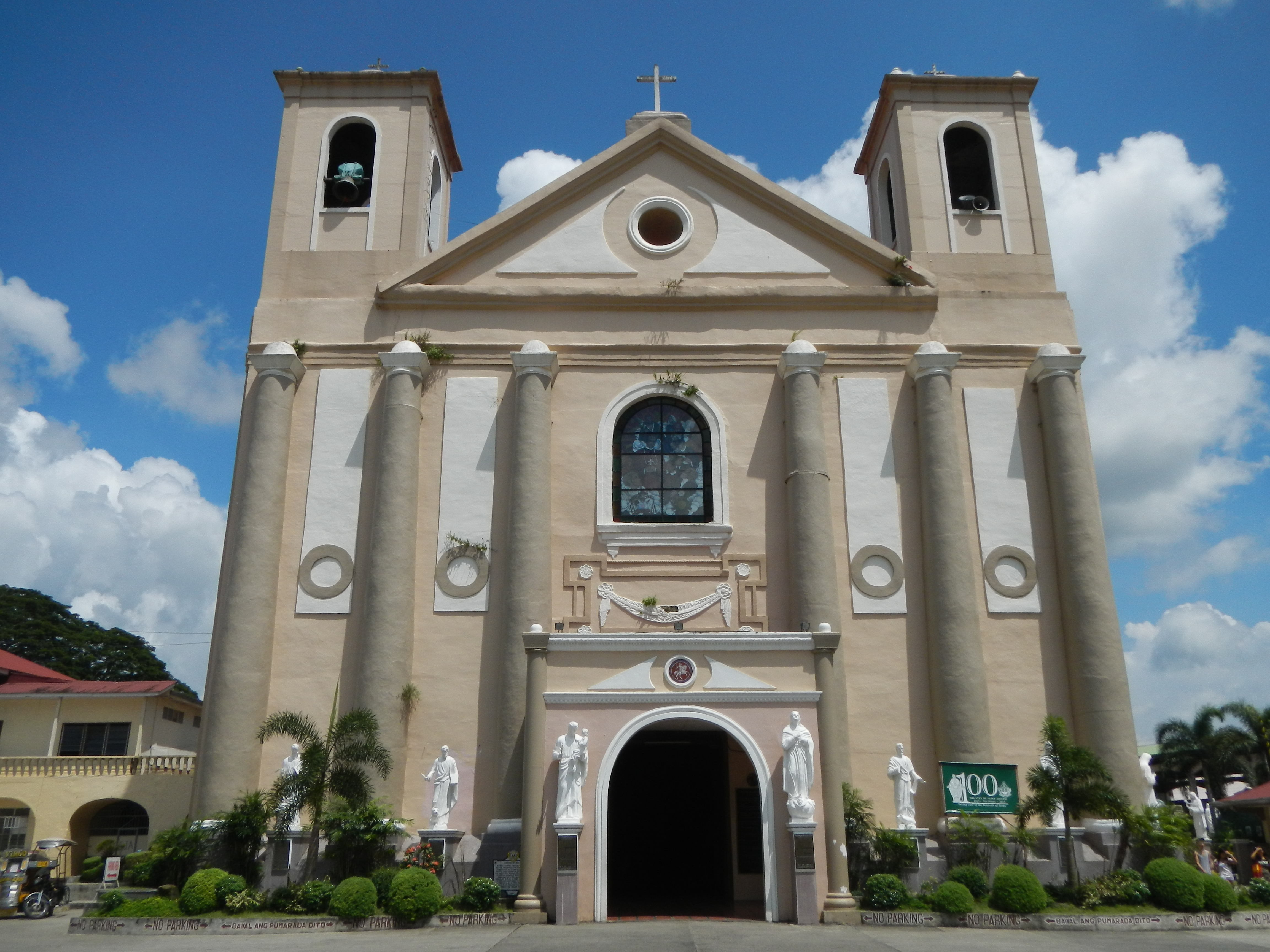 Upload Wizard photos of - Barangay Poblacion, Ibaan, Centro, downtown and in front of Town Hall, road, the - PH-40-0012 Saint James the Greater Parish Church of Ibaan (is part of the official list of Cultural Properties of the Philippines in CALABARZON[1] - [2] construction of the present St. James the Greater Parish Church was started in 1854 by the Augustinians and completed 1869, located at Lipa-Ibaan Rd. 13°49′08″N 121°07′58″E; and Saint James Academy of Ibaan, in front of the Ibaan Municipal Hall Ibaan, Batangas [3] (a fourth class municipality in the Province of Batangas, Philippines; latest census, population of 45,790 people in 10,166 households; has a land area of 6,796 hectares or 26.24 sq mi at an altitude of 124 metres or 407 ft above sea level).